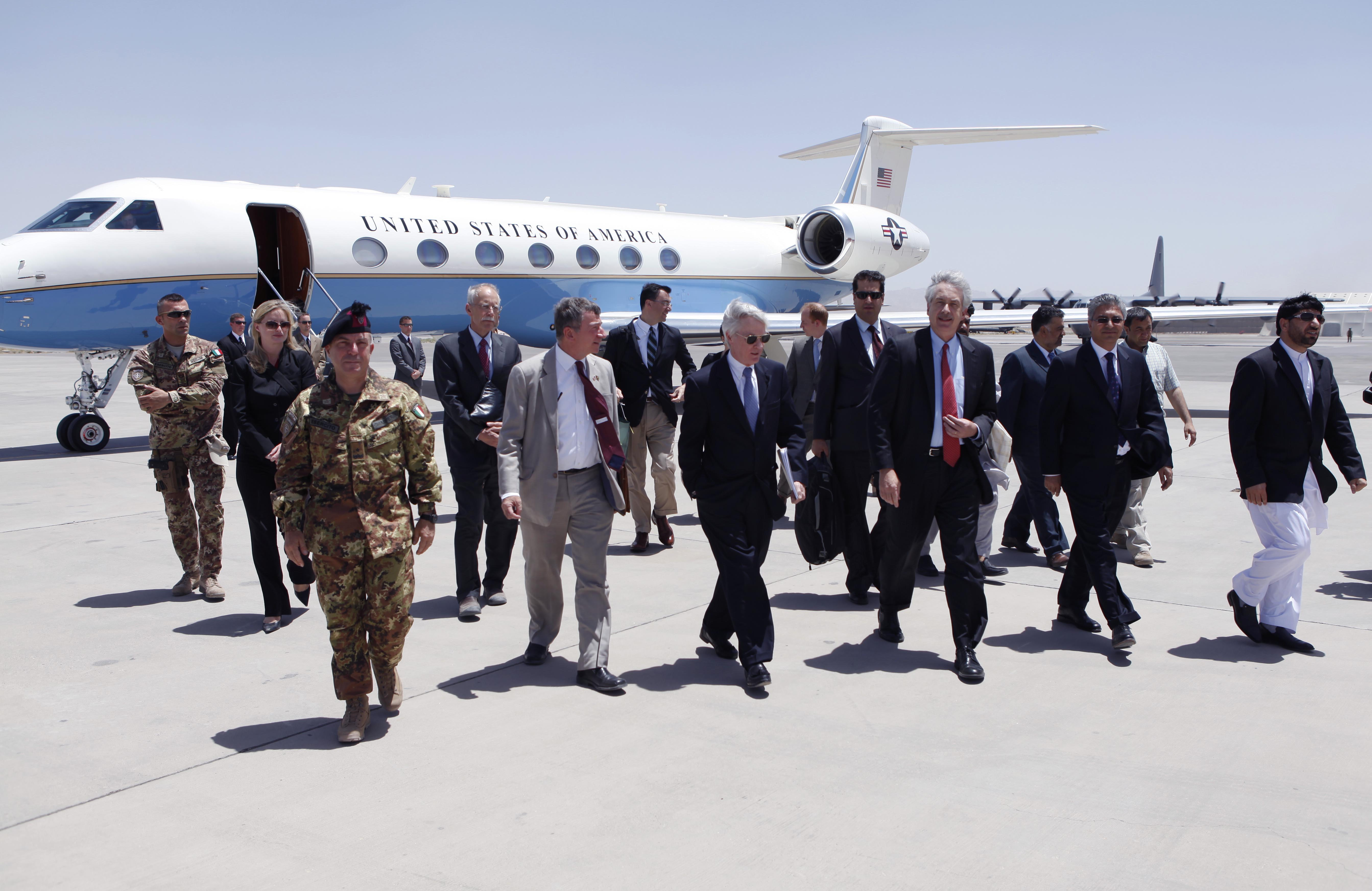 Deputy Secretary of State Bill Burns officially inaugurated the first United States consulate in Afghanistan during a ceremony in Herat.